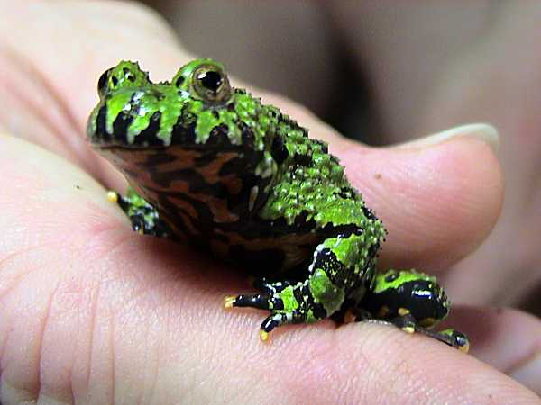 Photographer: LA Dawson Oriental Fire-belly Toad, Bombina orientalis Category:Frog images